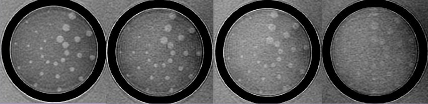 This series of pictures shows how the number of row of holes that are perceived decreases as the image contrast decreases from 5.1% to 3.7% to 2.2% to 1% (left to right) in the low contrast detectability insert of the American College of Radiology's MRI accreditation phantom.